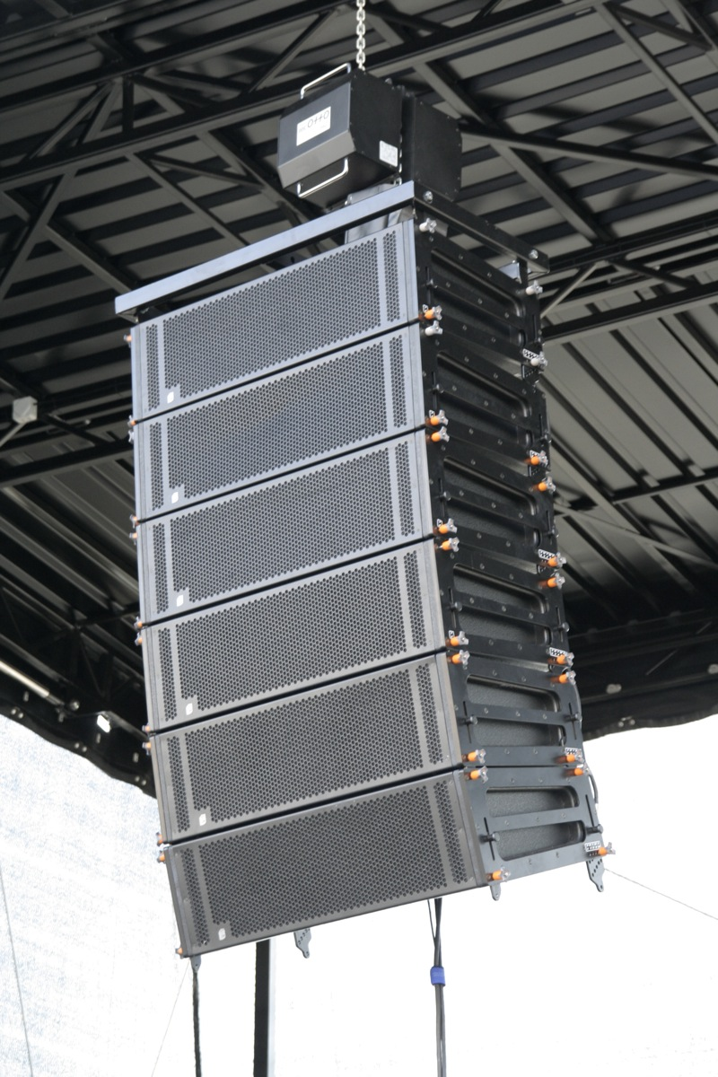 VMB - Line Array LYNX LX-F6 Self-amplified for small format line array with digital inclinometer. Uses 2 speakers and a 6"folded ribbon driver. 1500 W Class D amplification, DSP processor (0.5 ms latency) and Ethernet.